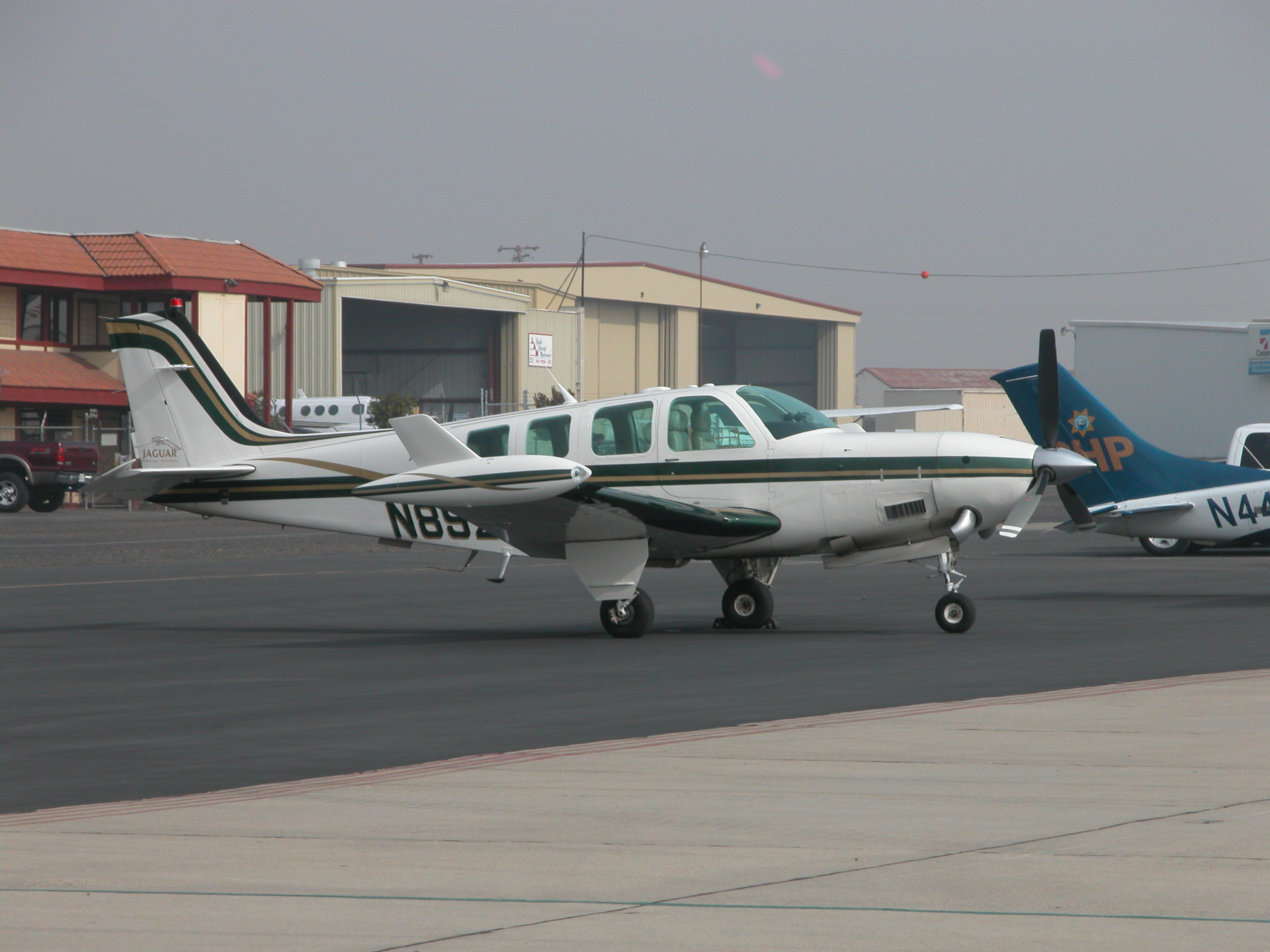 Beechcraft A36 Bonanza with Tradewind Turbines turboprop conversion at Meadows Field, Bakersfield, California